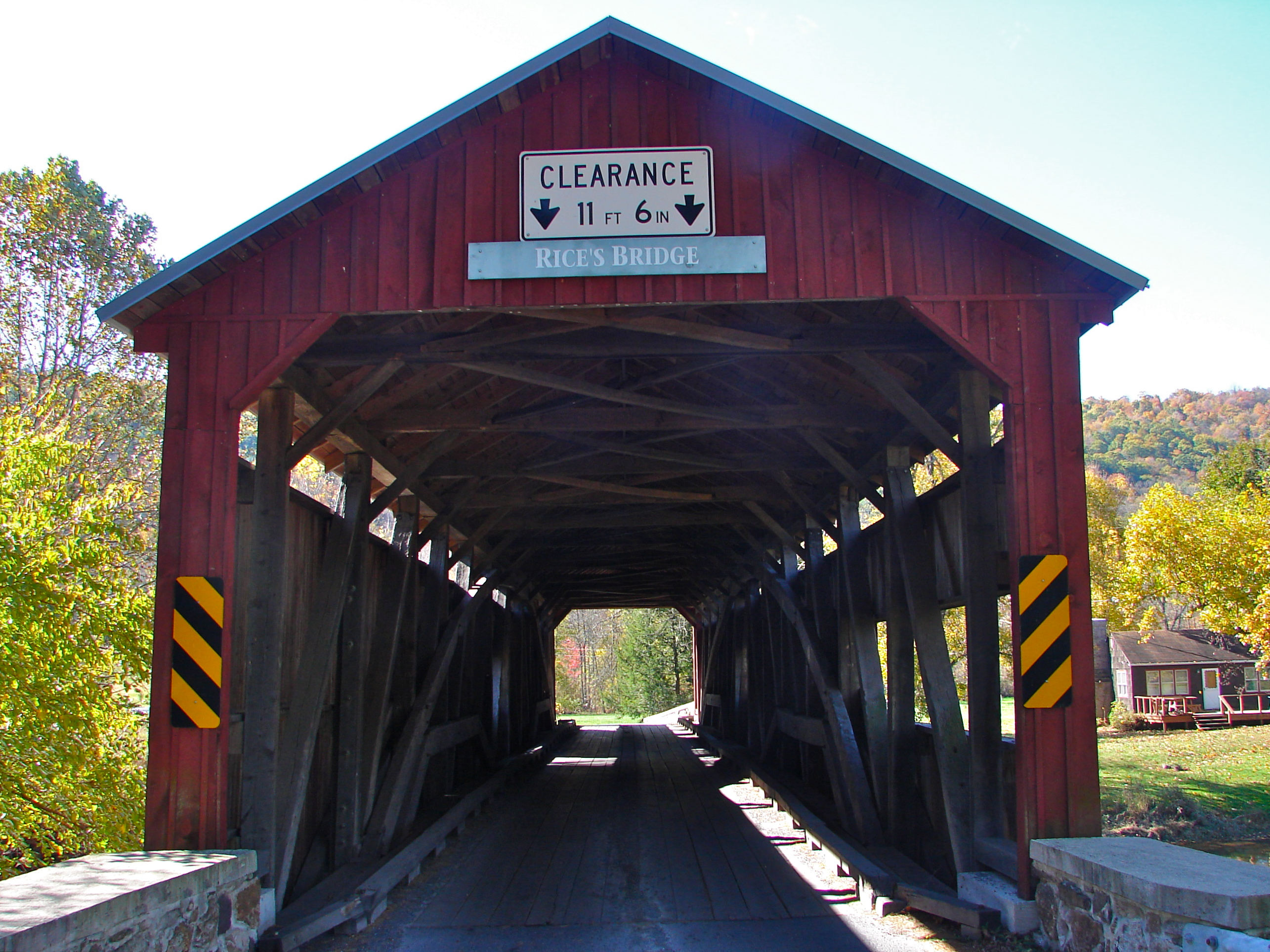 Rice Covered Bridge on the NRHP since August 25, 1980. South of Landisburg on Legislative Route 50023 (Kennedy Valley Rd., just south of Water Street) in Tyrone Township, Perry County, Pennsylvania